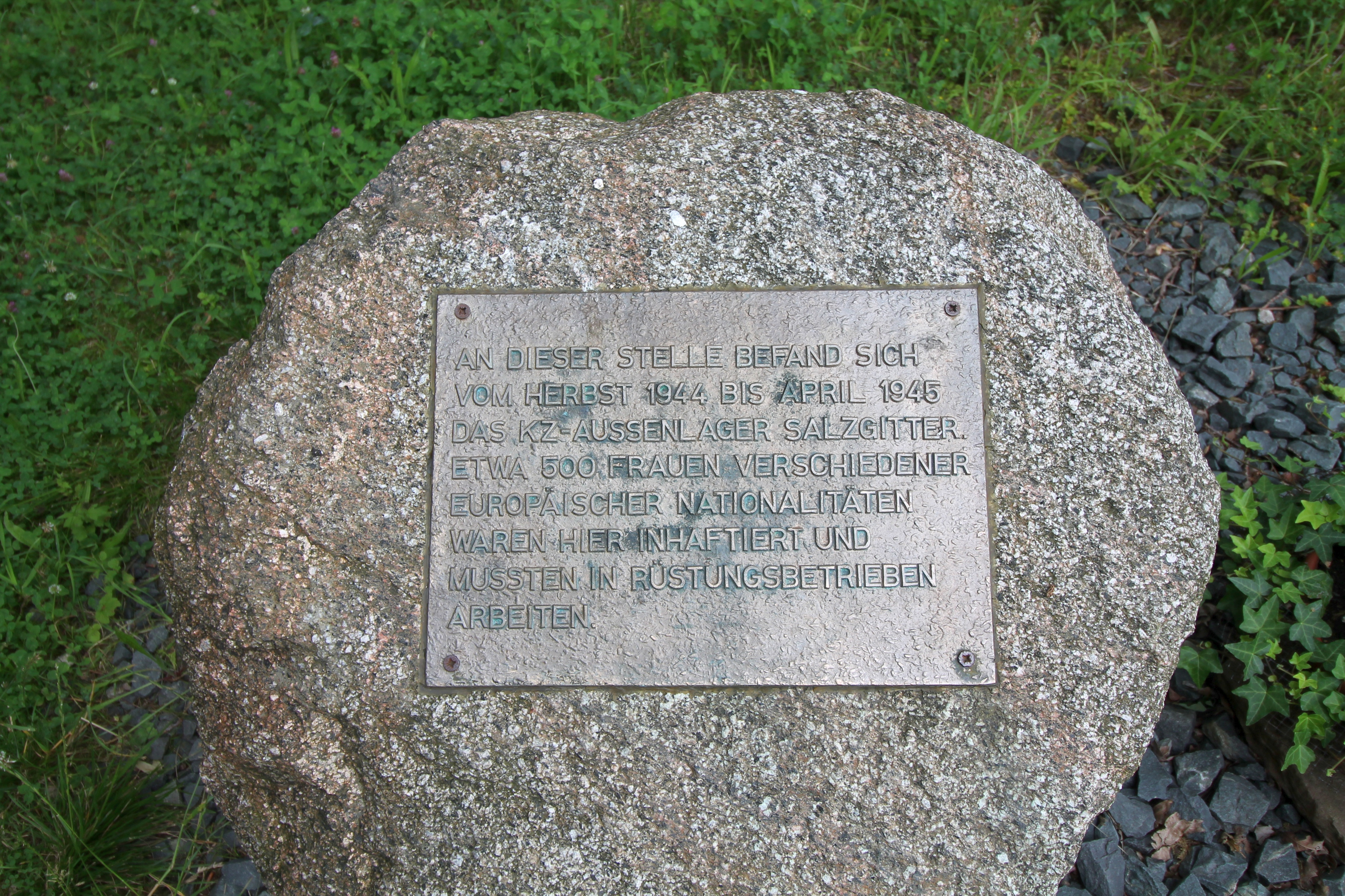 Nazi concentration camp Salzgitter-Bad memorial. Friedrich-Ebert-Strasse in Salzgitter-Bad, Salzgitter, Lower Saxony, Germany.